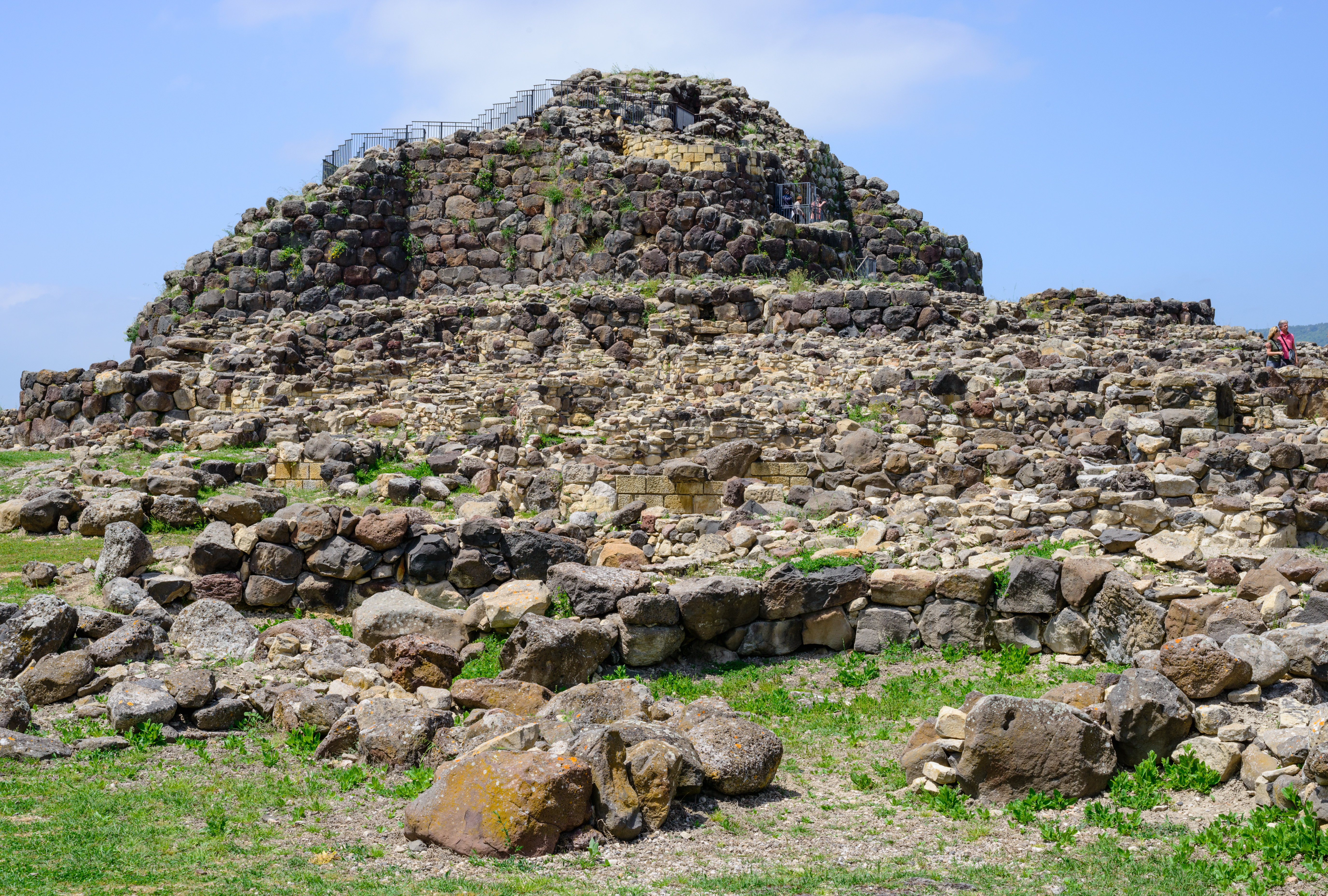 Su Nuraxi is a nuragic archaeological site in Barumini, Sardinia, Italy. The complex is centred around a three-storey tower built around the 16th century BC.